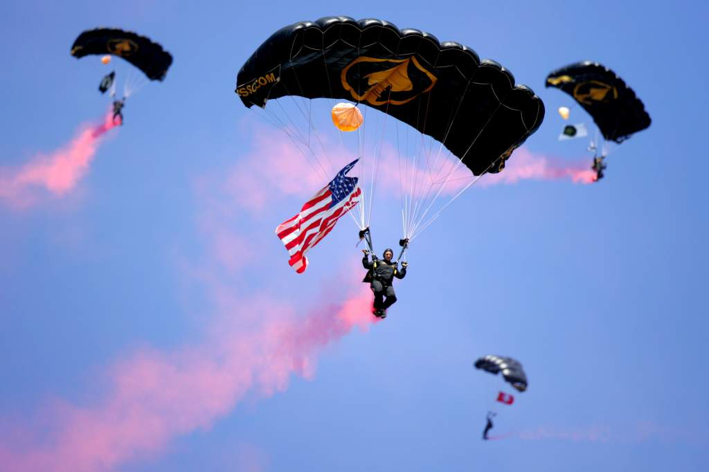 The Para-Commandos are SOCOM's demonstration parachute team and they perform precision freefall parachute demonstrations across the United States.